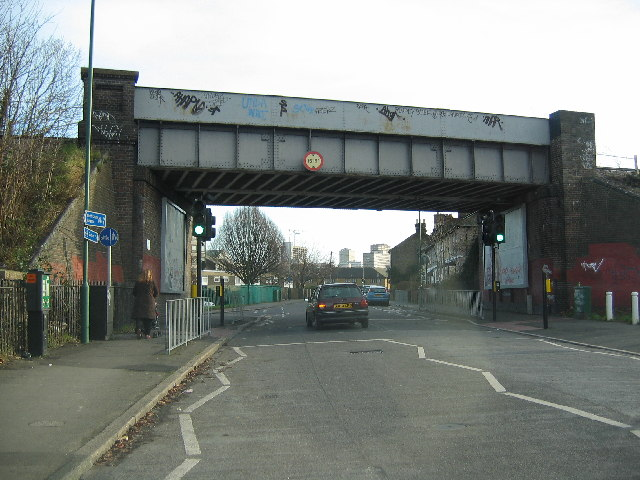 Collingwood Road Railway Bridge, Sutton. This is a heavy older railway bridge over a main road near the bottom half of Sutton. The track leads up towards West Sutton Station, to the right of the photo about half a mile away, the other way leads down to St Helier station also about half a mile away.